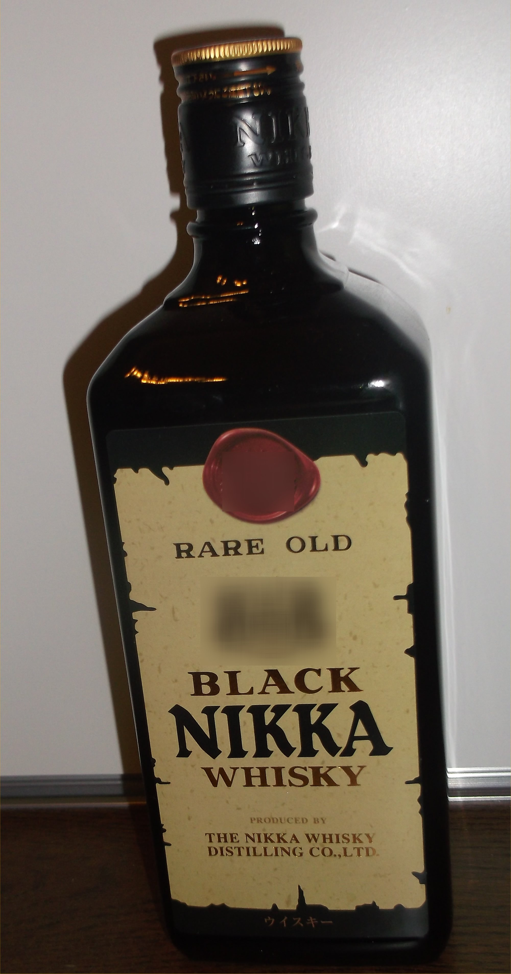 A photo of "Black Nikka revival version"(2015)(a whisky in Japan.)